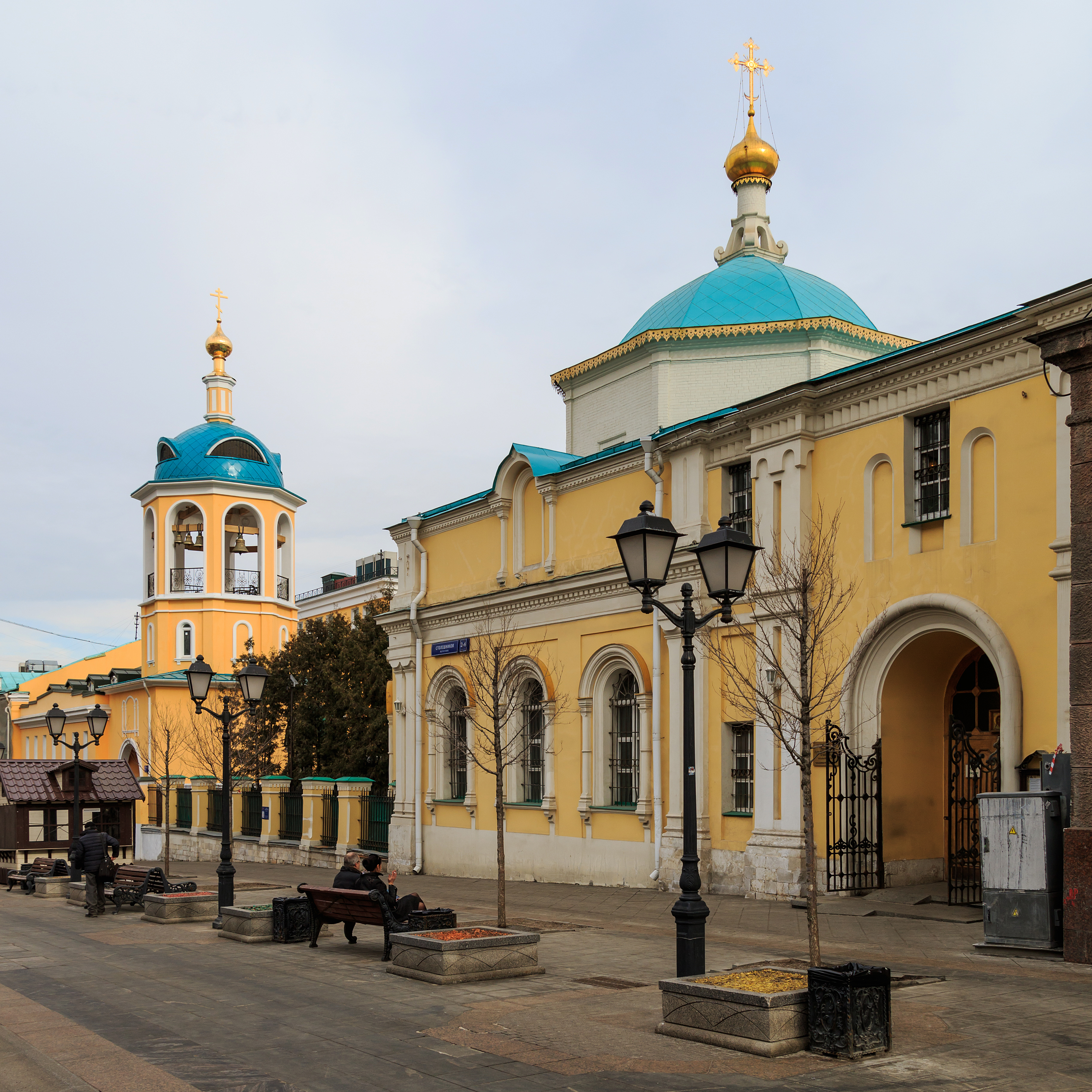 Church of Saints Cosmas and Damian in Shubino. Moscow, Russia.